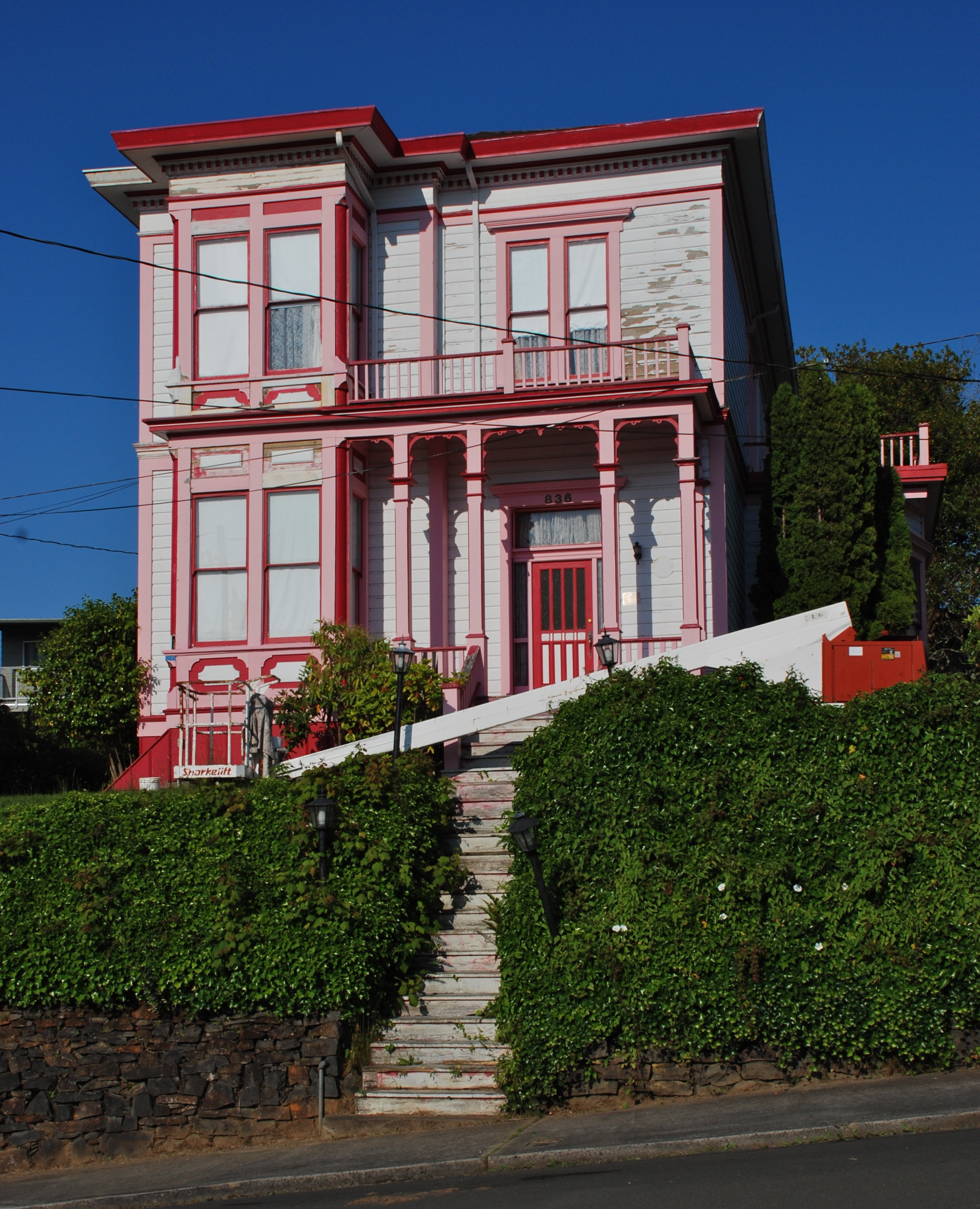 The Peter L. Cherry House (built in 1877) is a house in Astoria, Oregon, that is listed on the U.S. National Register of Historic Places.